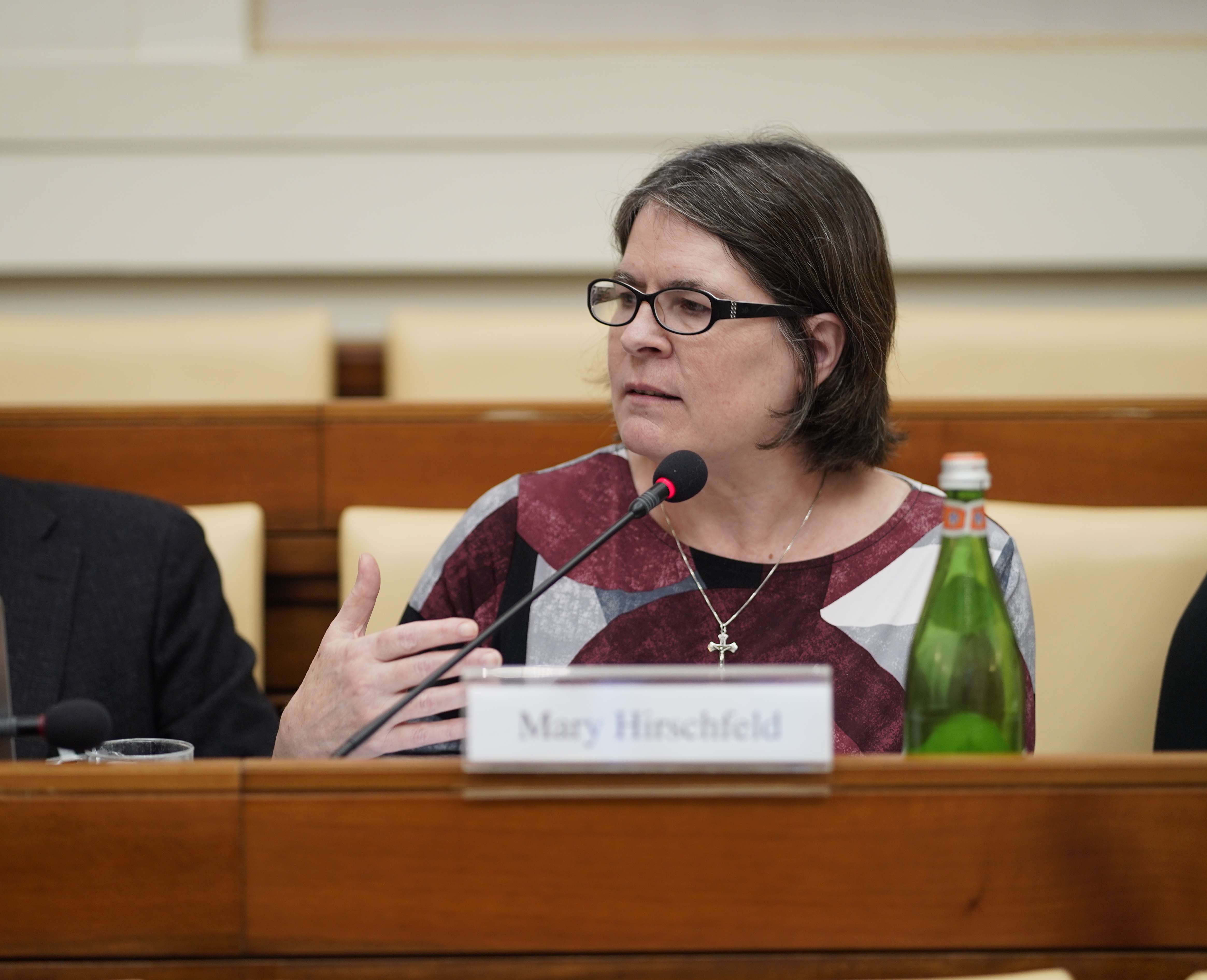 Portrait of Mary Hirschfeld at the Pontifical Academy of Sciences on 4 November 2019